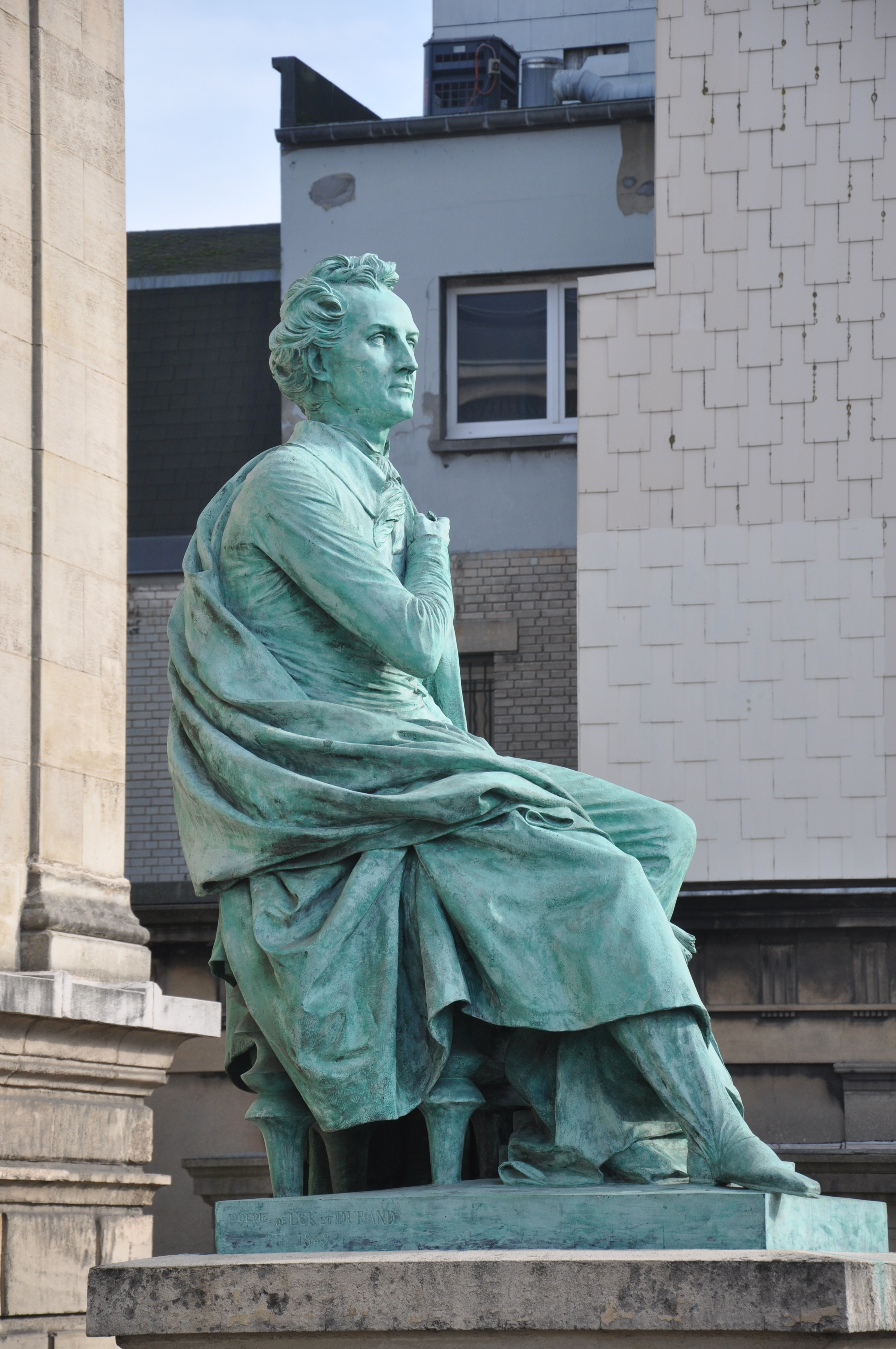 Pierre-Jean David d'Angers, Monument to Casimir Delavigne, 1852, Le Havre (Normandy, France).